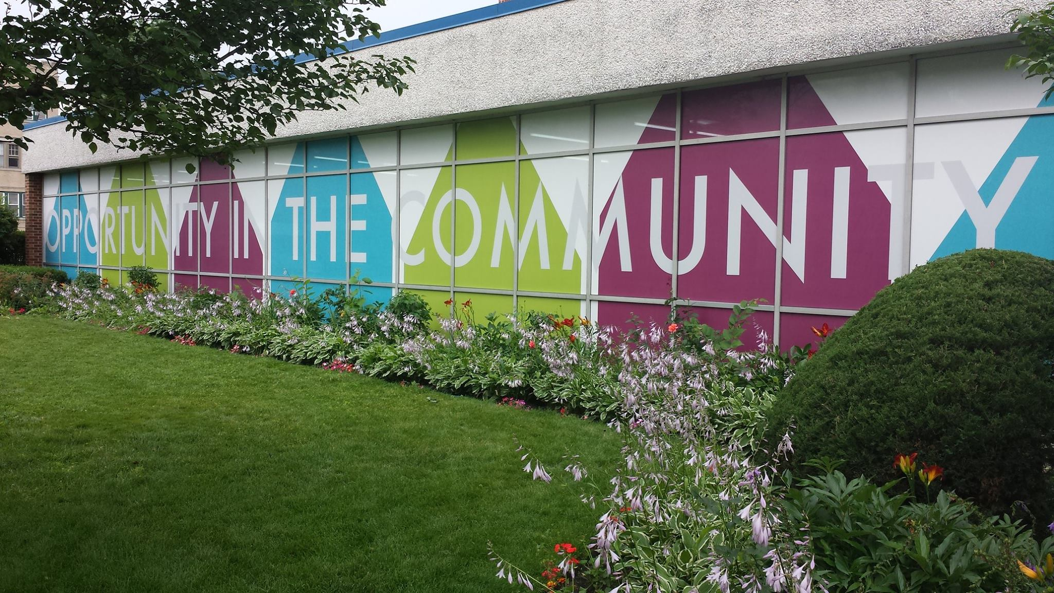 Location of building